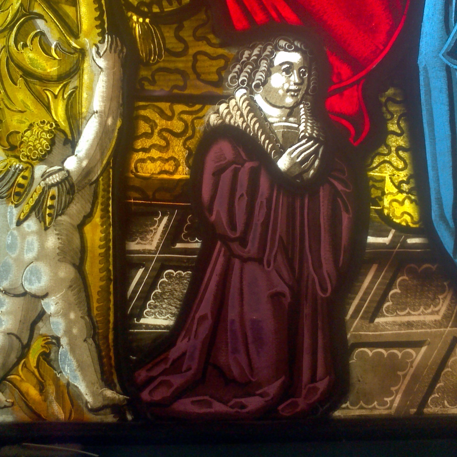 Jakob Kaltwetter, donator, detail